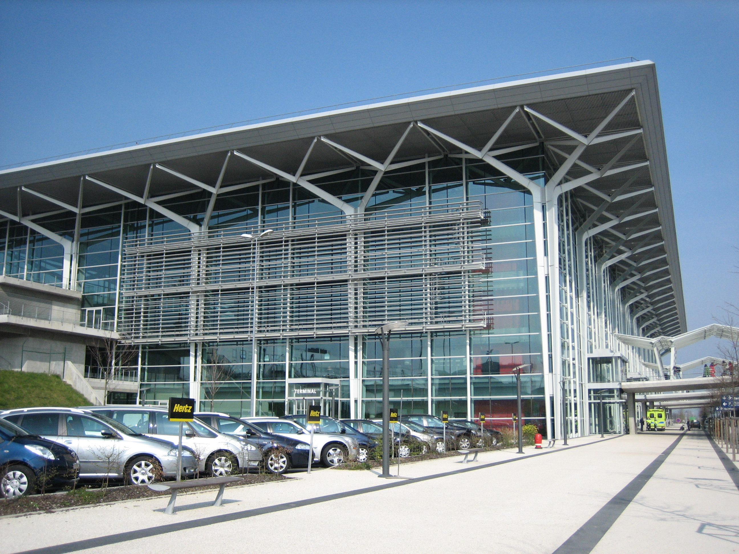 Outside Basel-Mulhouse EuroAirport